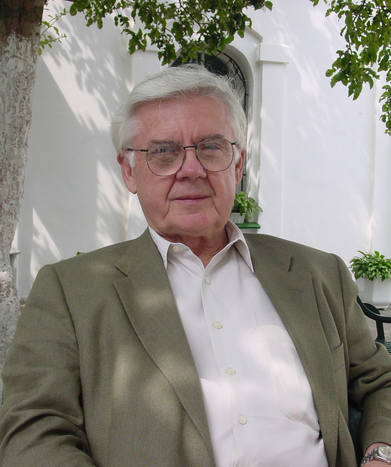 Wladimir Wertelecki, M.D. is a pediatrician, medical geneticist and professor of Medical Genetics and Pediatrics (emeritus of the University of South Alabama, US).